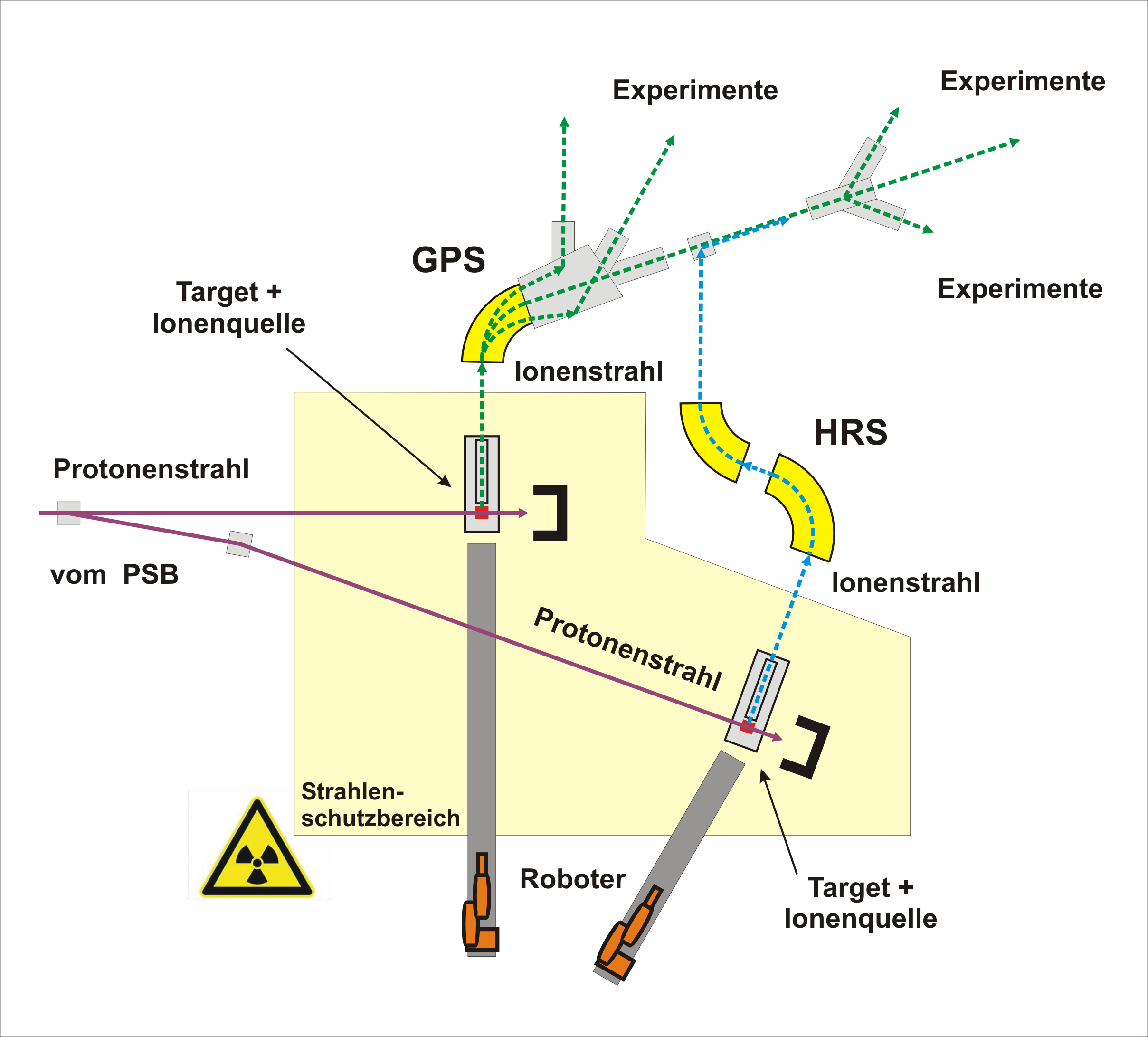 Schema of the "Isotop Separator On Line DEvice" (ISOLDE) at CERN